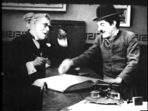 Screenshot from US movie "Bright and Early", 1918 year.